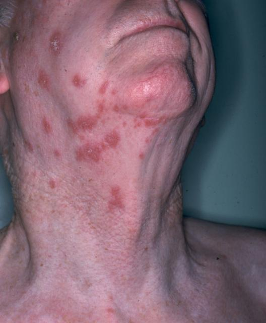 Shingles rash caused by herpes zoster virus. Credit: NIAID